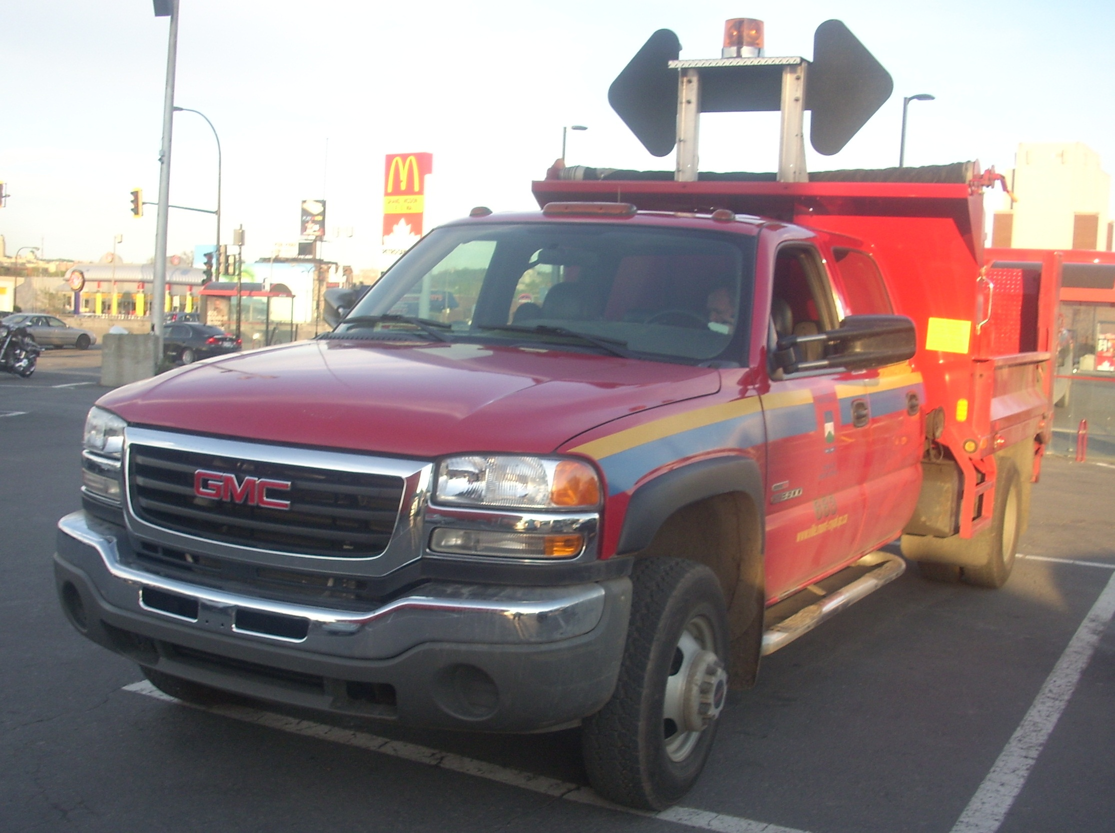 2003-2006 GMC Sierra Town Of Mount Royal photographed in Montreal, Quebec, Canada at Gibeau Orange Julep.